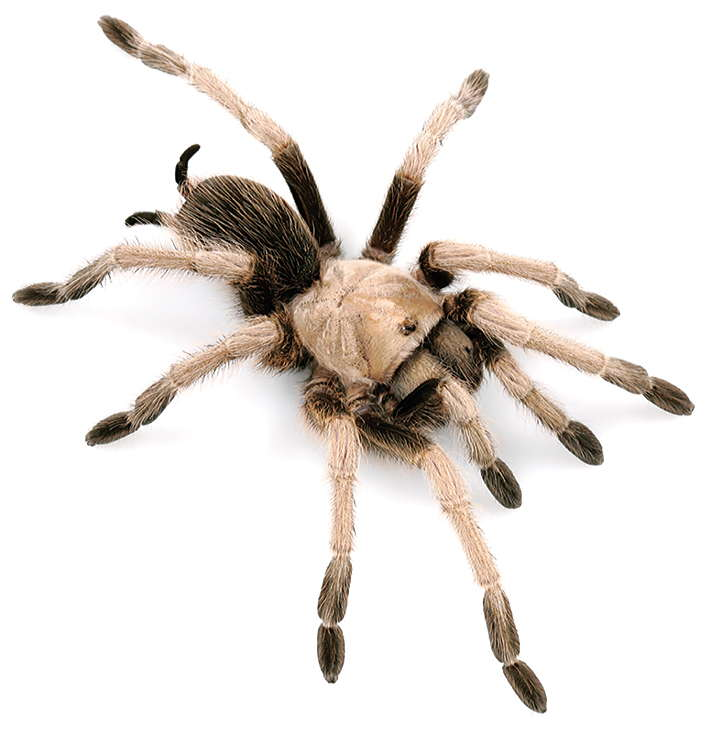 Aphonopelma iodius female